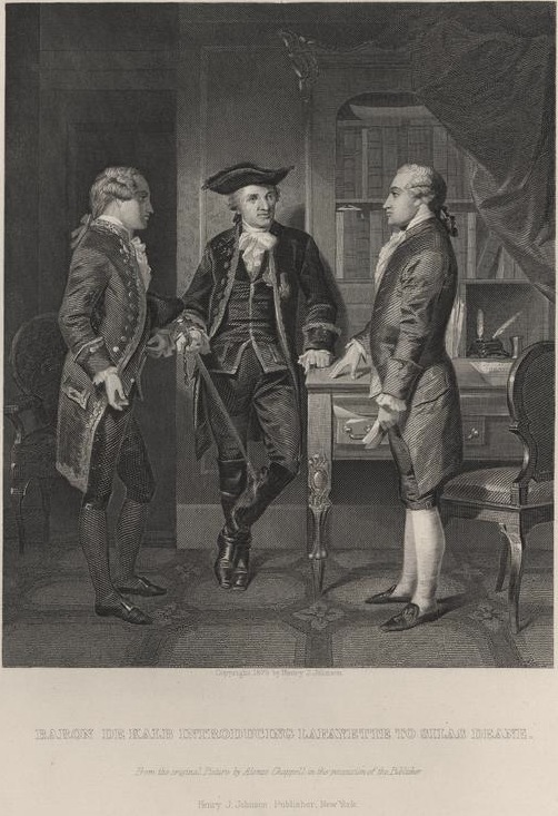 Print, "Baron de Kalb introducing Lafayette to Silas Deane", (the US agent in Paris who signed Lafayette for the Continental Army